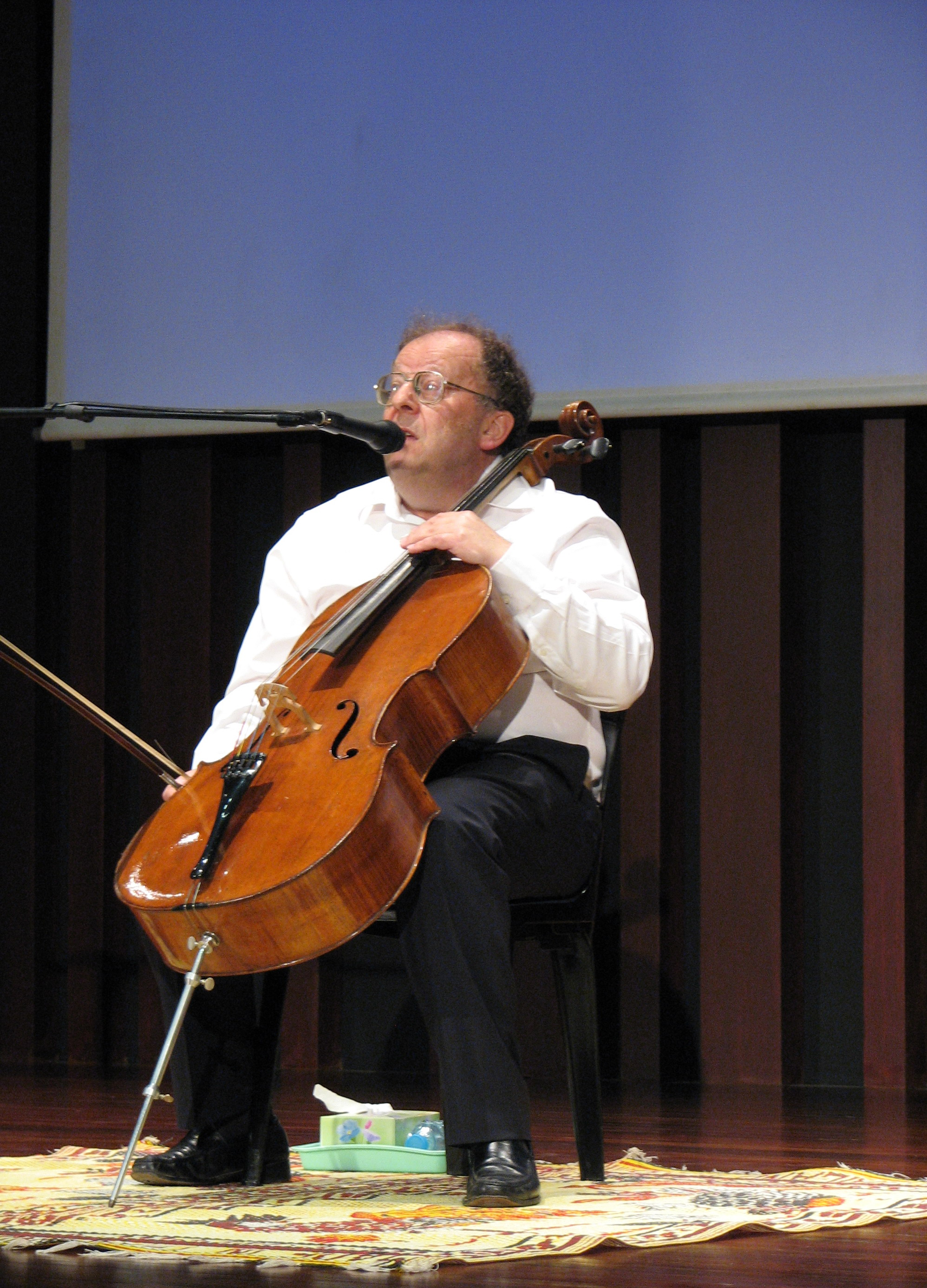 Dr Beat Richner, director of the Kantha Bopha Children's Hospital in Siem Reap performs with his cello. Dr Richner has fought to improve health care in Cambodian while hindered by government red tape and indifference. He was named "Swiss of the Year" in 2003.